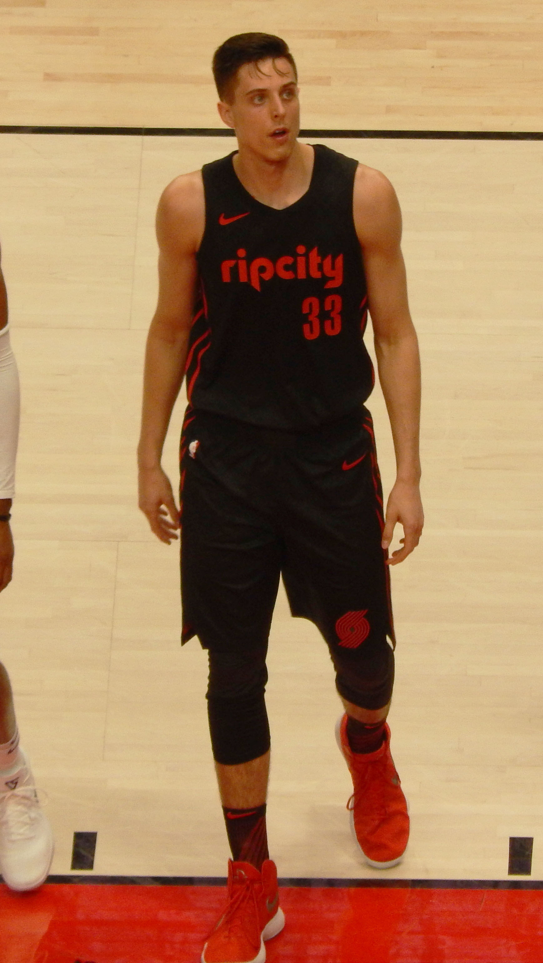 Vince Carter #15 of the Sacramento Kings against the Portland Trail Blazers on February 27, 2018 at Moda Center in Portland, Oregon.